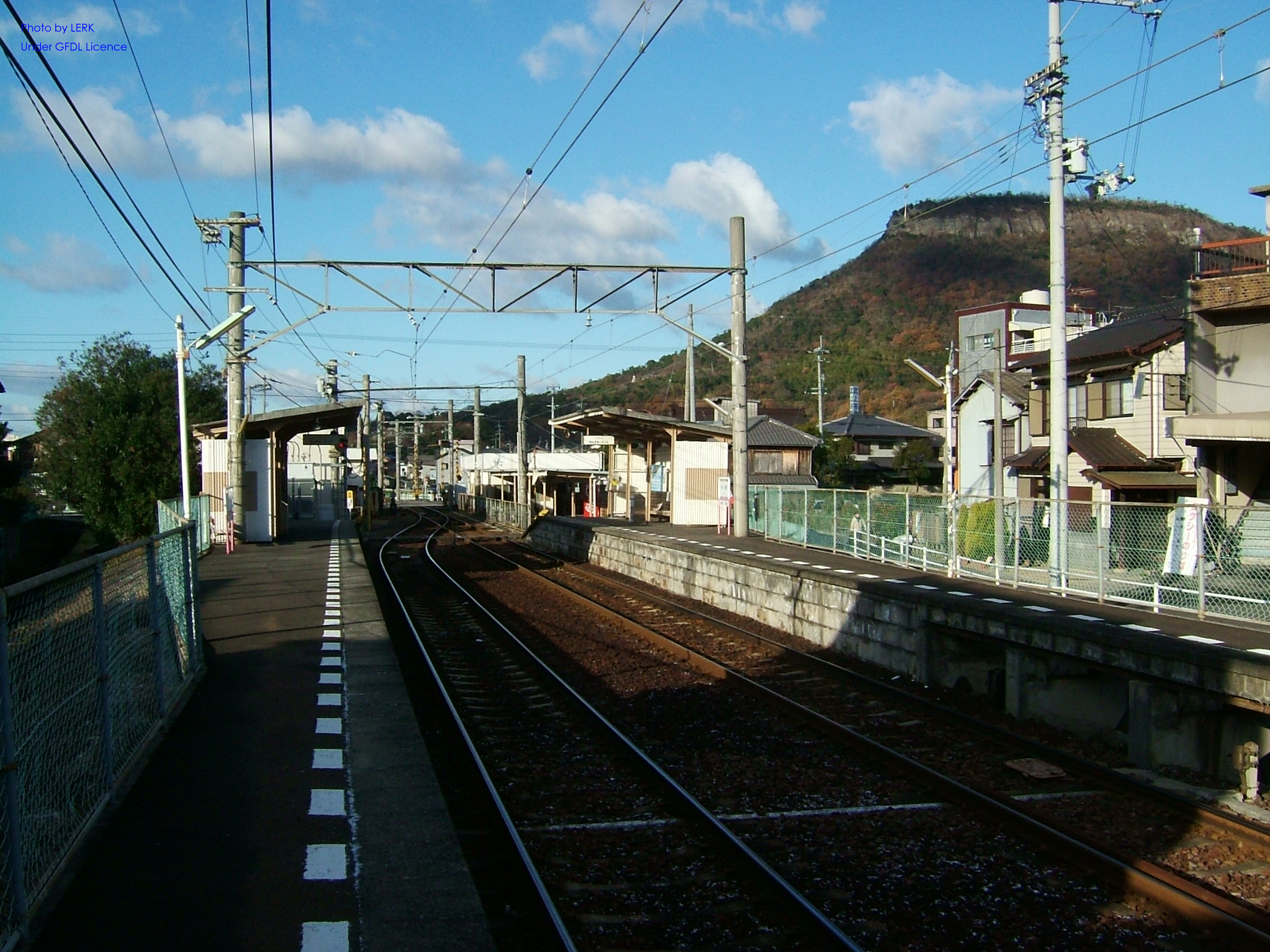 The platforms at Yakuri Station on the Takamatsu-Kotohira Electric Railroad(Kotoden) Shido Line